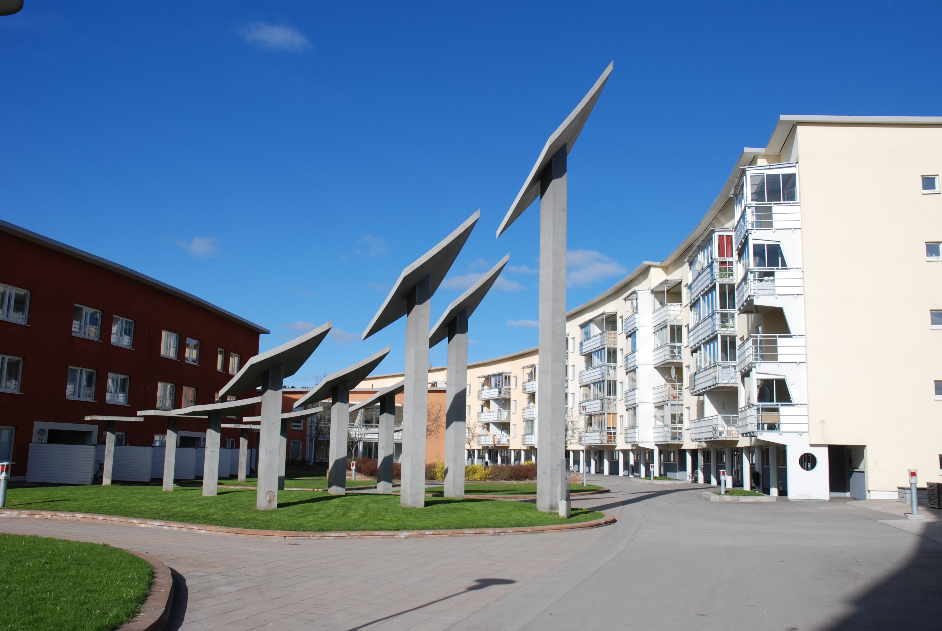 Einar Höste´s Genomgående skålform, Norrköping, Sweden